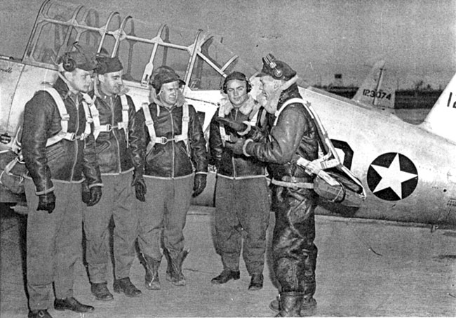 Flight Cadets at Walnut Ridge AAF, Arkansas, 1942